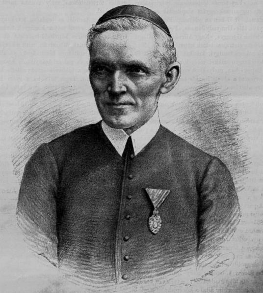 Portrait of Ferenc Vaszary Kolos